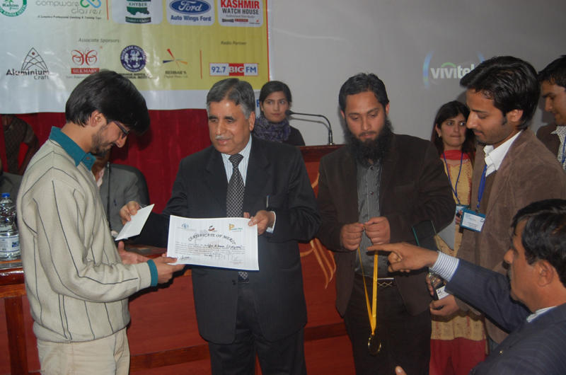 A participant receiving award during the prize distribution ceremony at Verite Film Festival held on 20th April 2011 at IUST.